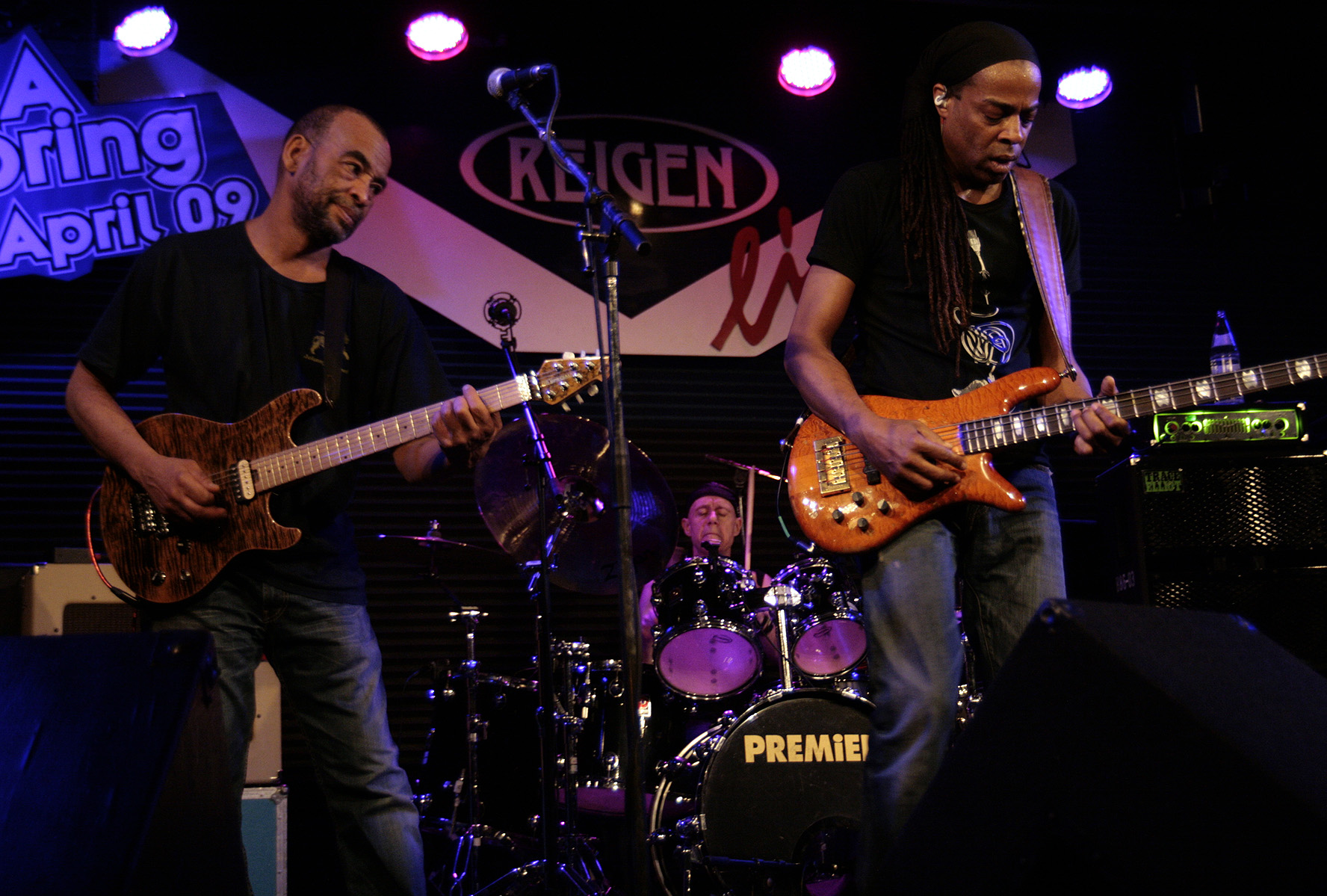 Little Axe (Skip McDonald), Keith Leblanc and Doug Wimbish; concert at the Reigen in Vienna